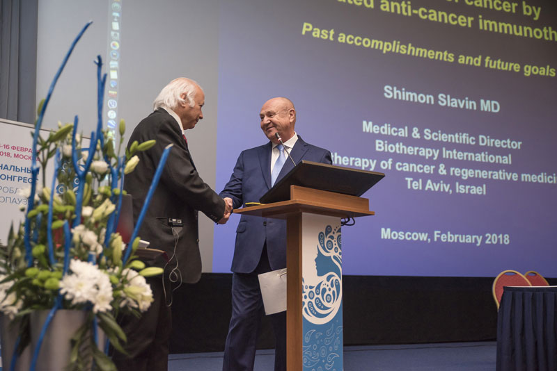 Slavin